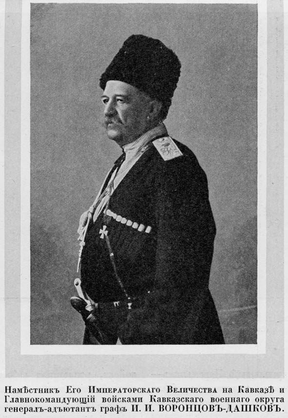 Viceroy His Imperial Majesty in the Caucasus and Commander in chief of the troops of the Caucasian military district Adjutant General Count Illarion Ivanovich Vorontsov-Dashkov. (1837-1916)